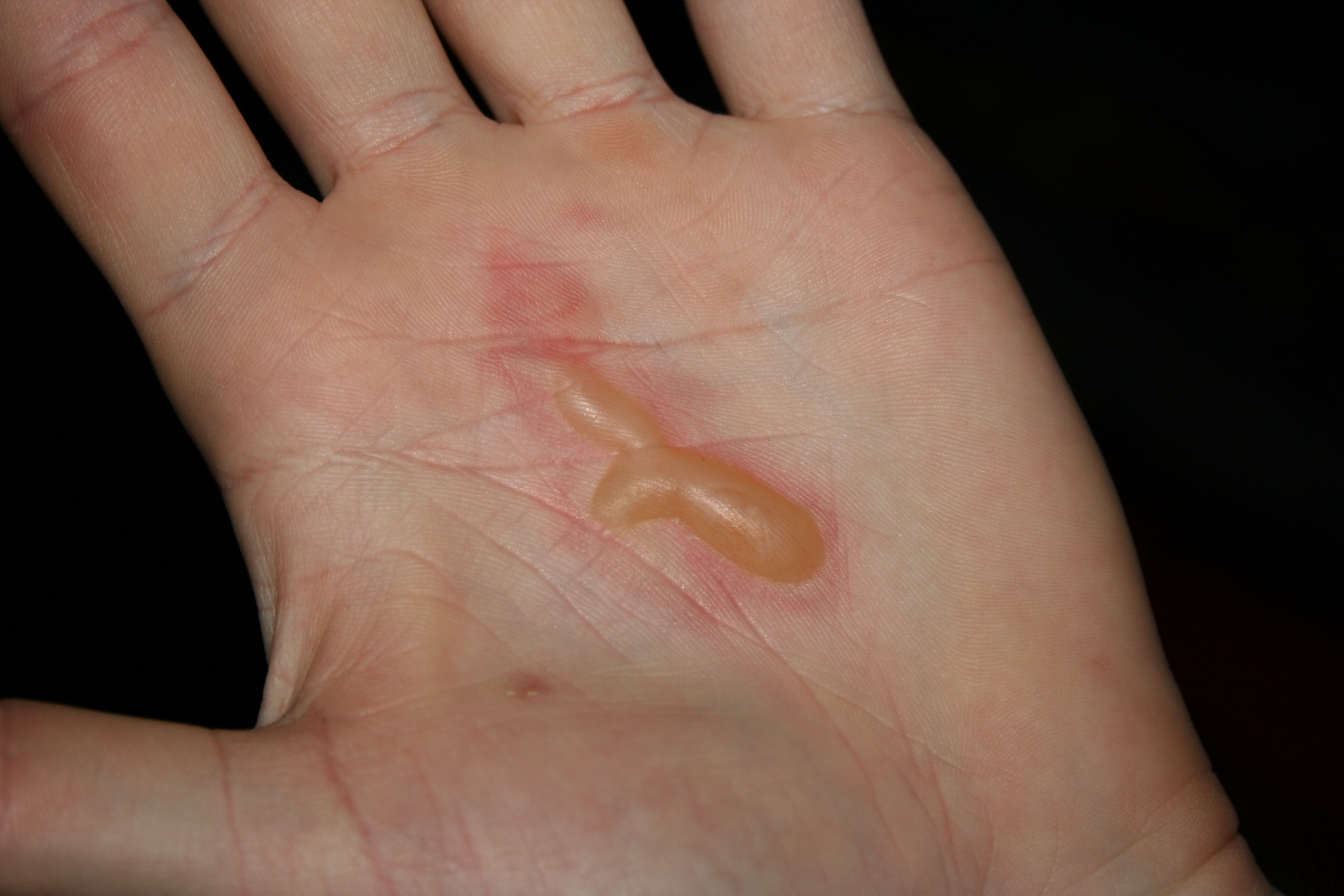 picture made by my roommate